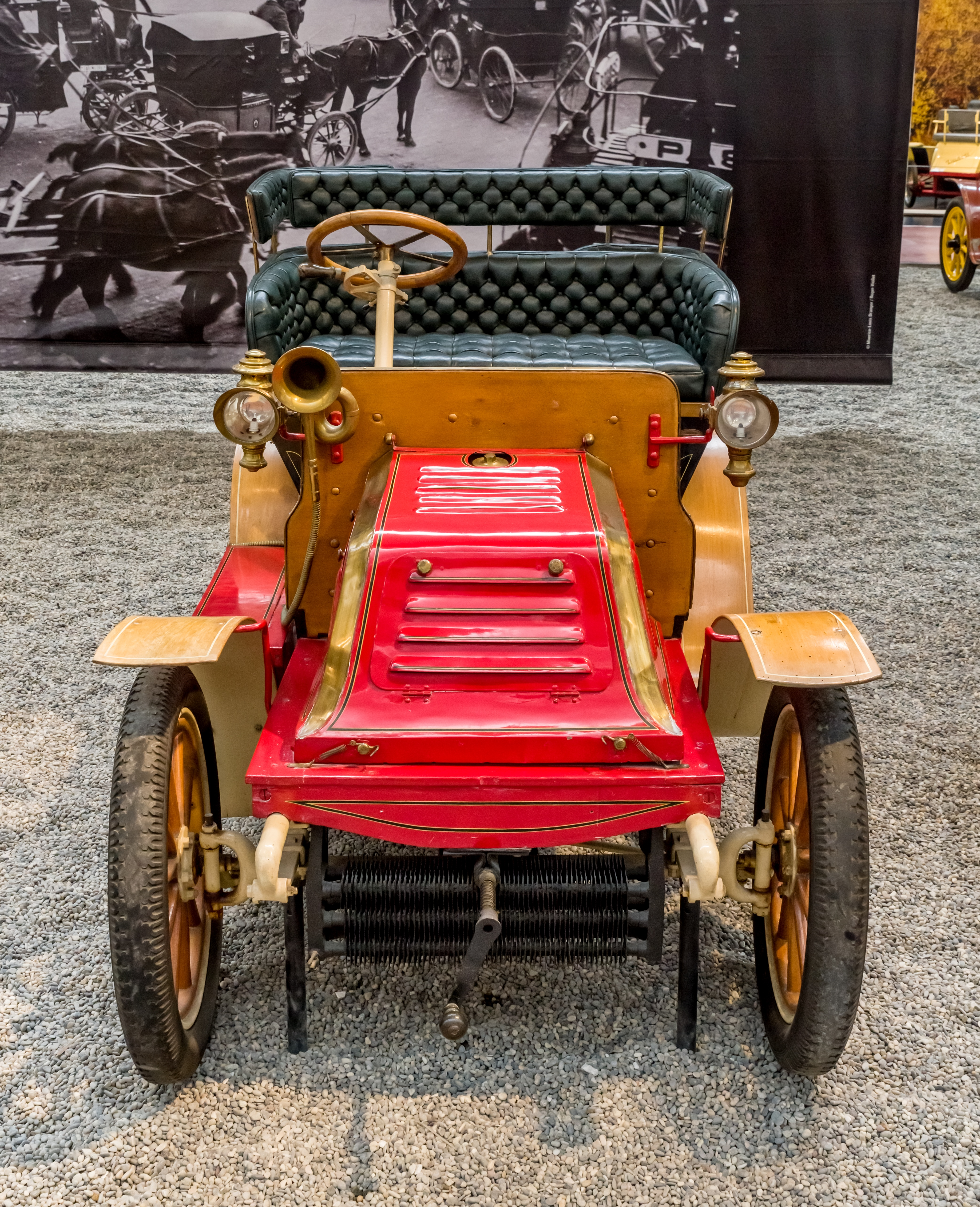 pictures from the Cité de l’Automobile – Musée National – Collection Schlump in Mulhouse, France ptictures from the 10. may 2018